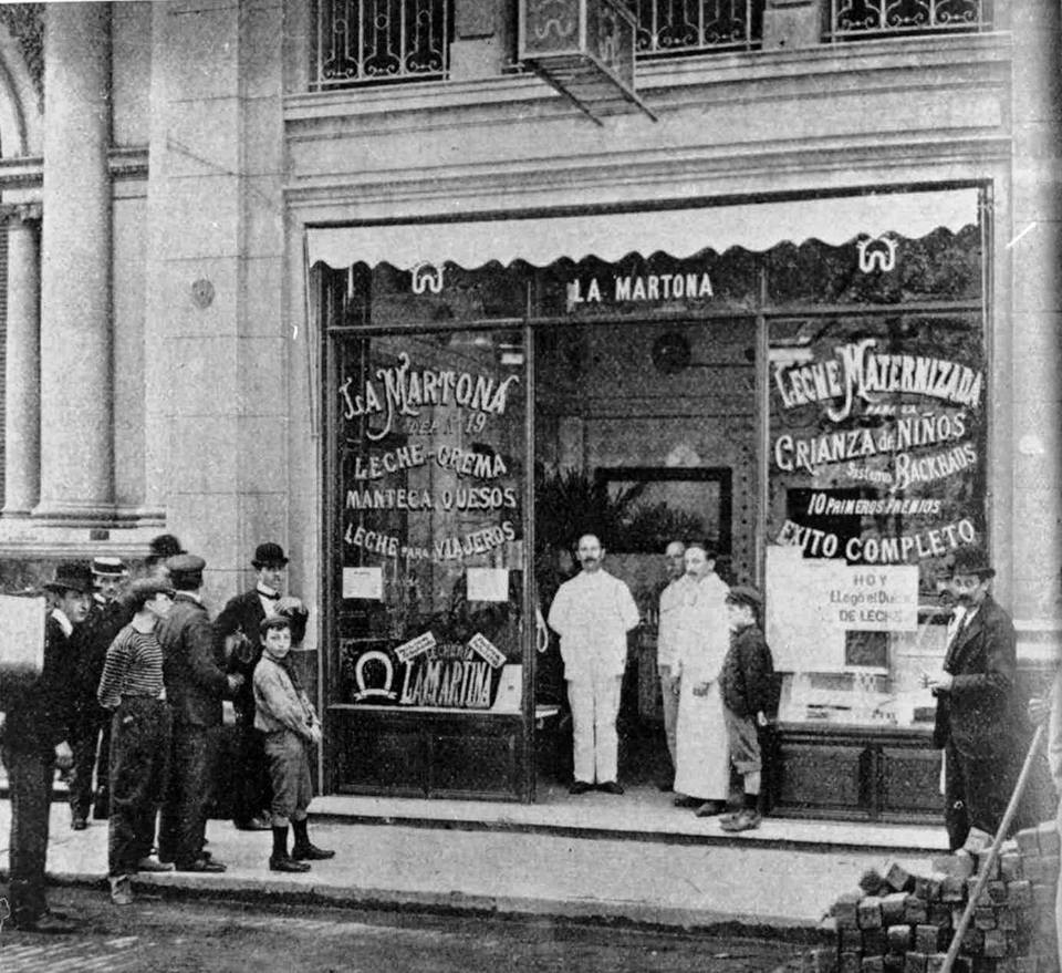 Dairy products store by "La Martona", located on San Martín 115, next to the Province of Buenos Aires Bank.